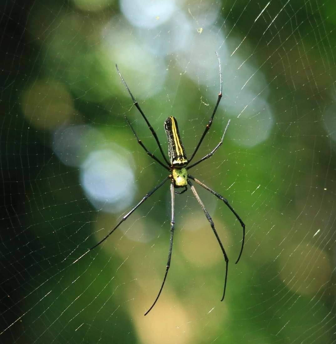 Giant wood spider, from koottanad Palakkad Kerala